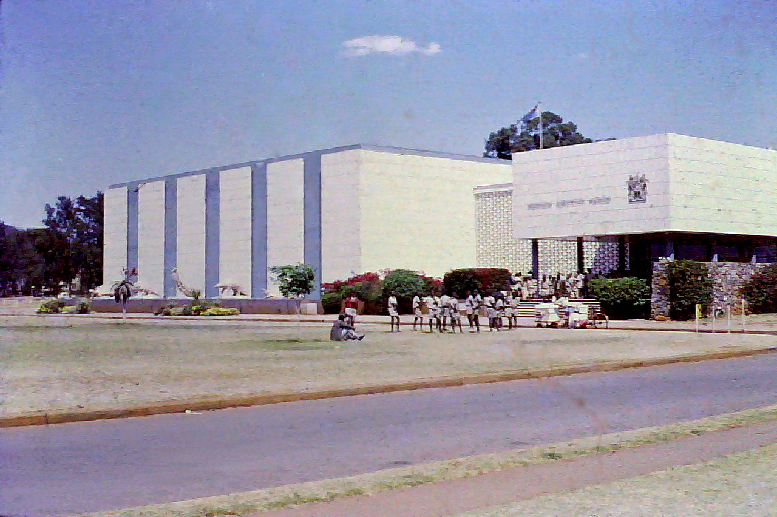 The National Museum in Salisbury, Rhodesia (now Harare, Zimbabwe). This photo was taken during the 1970s.